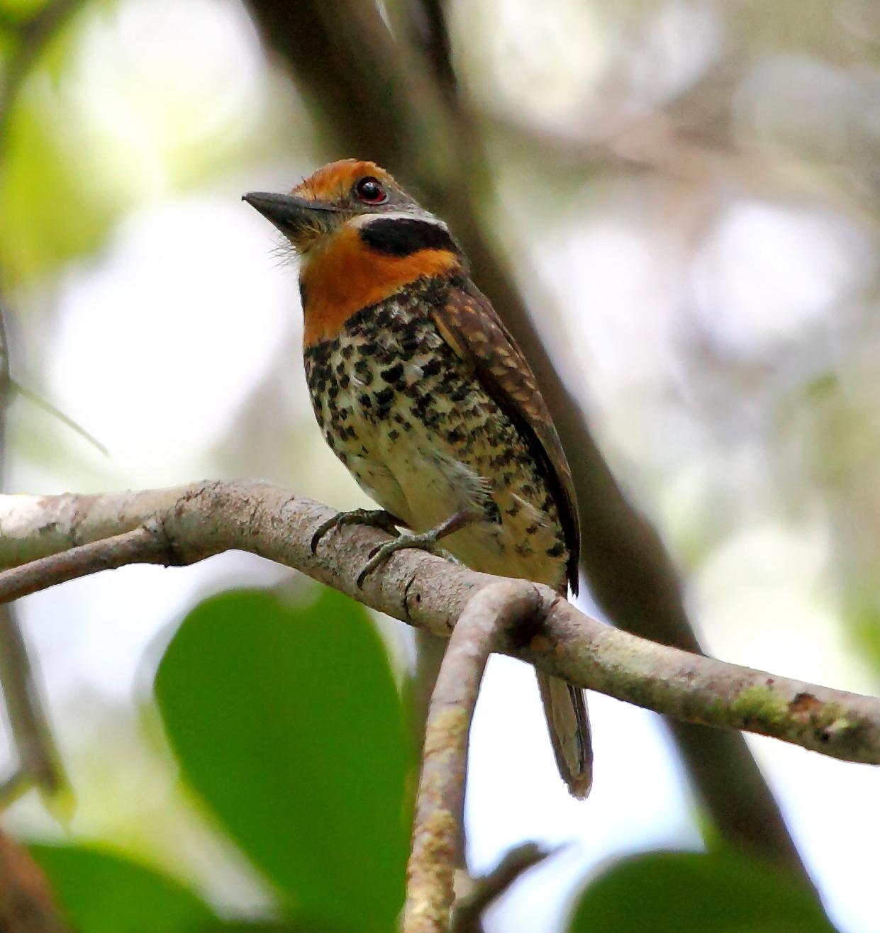 Spotted Puffbird at Presidente Figueiredo - AM - Brazil